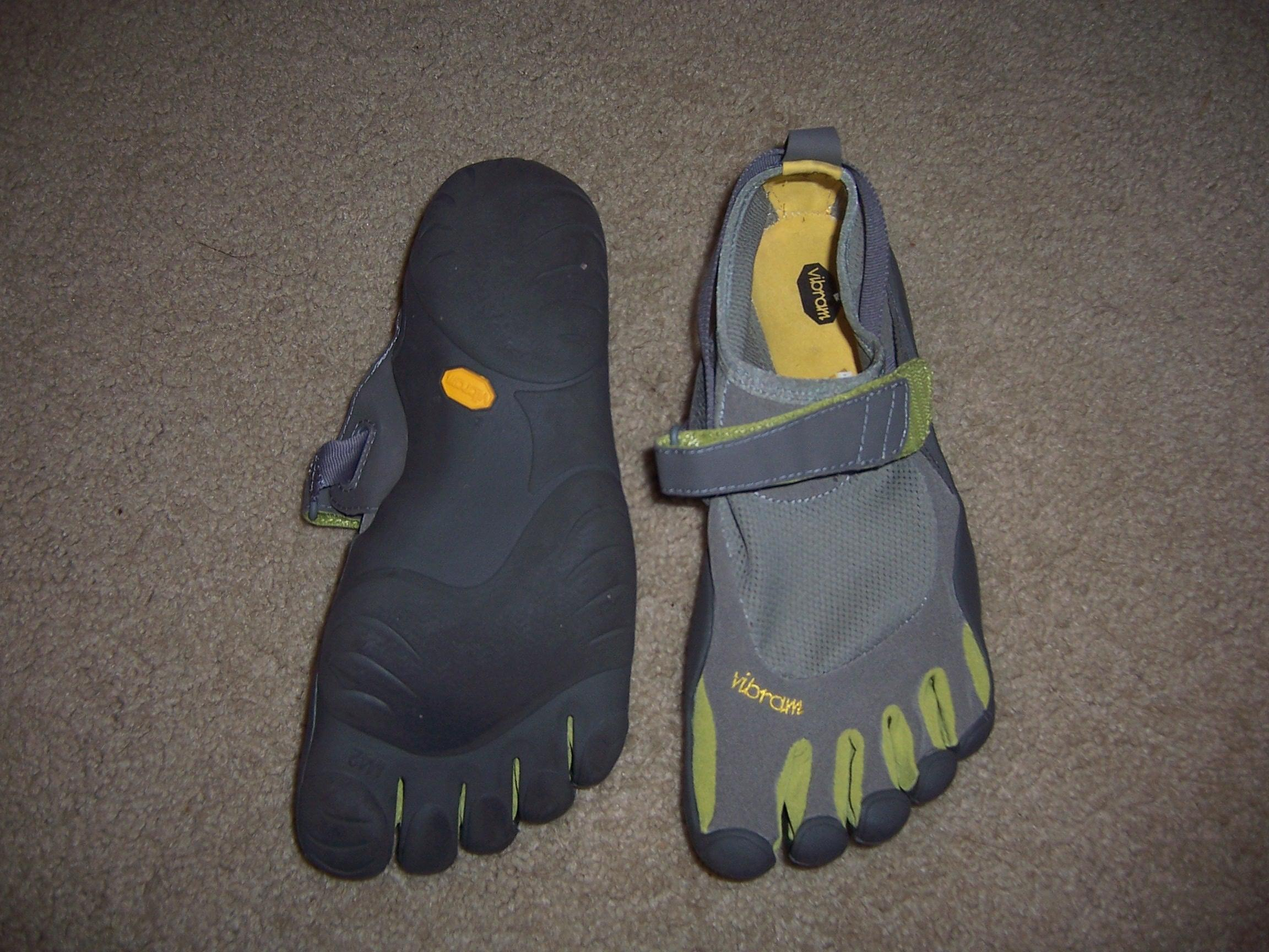 I cannot tell you how much I LOFF them!!!